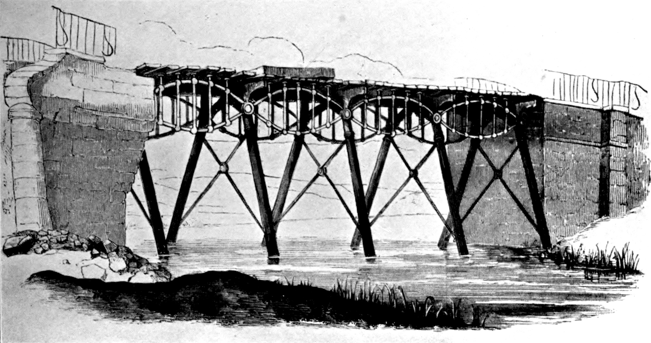 Entitled "First Iron railway bridge", this is the bridge over the River Gaunless on the Stockton and Darlington Railway, designed by Robert Stephenson. Originally there were three sections, but a fourth was added in 1824.